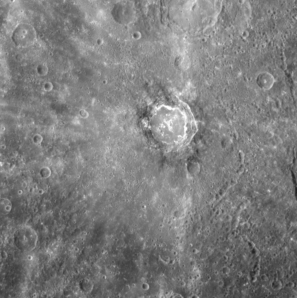 Seuss crater on Mercury. MESSENGER Wide Angle Camera image. Approximate north is at top. Emission Angle: 10.7 Incidence Angle: 34.6 Latitude: 6.9 Longitude: 32.9 Phase Angle: 45.3